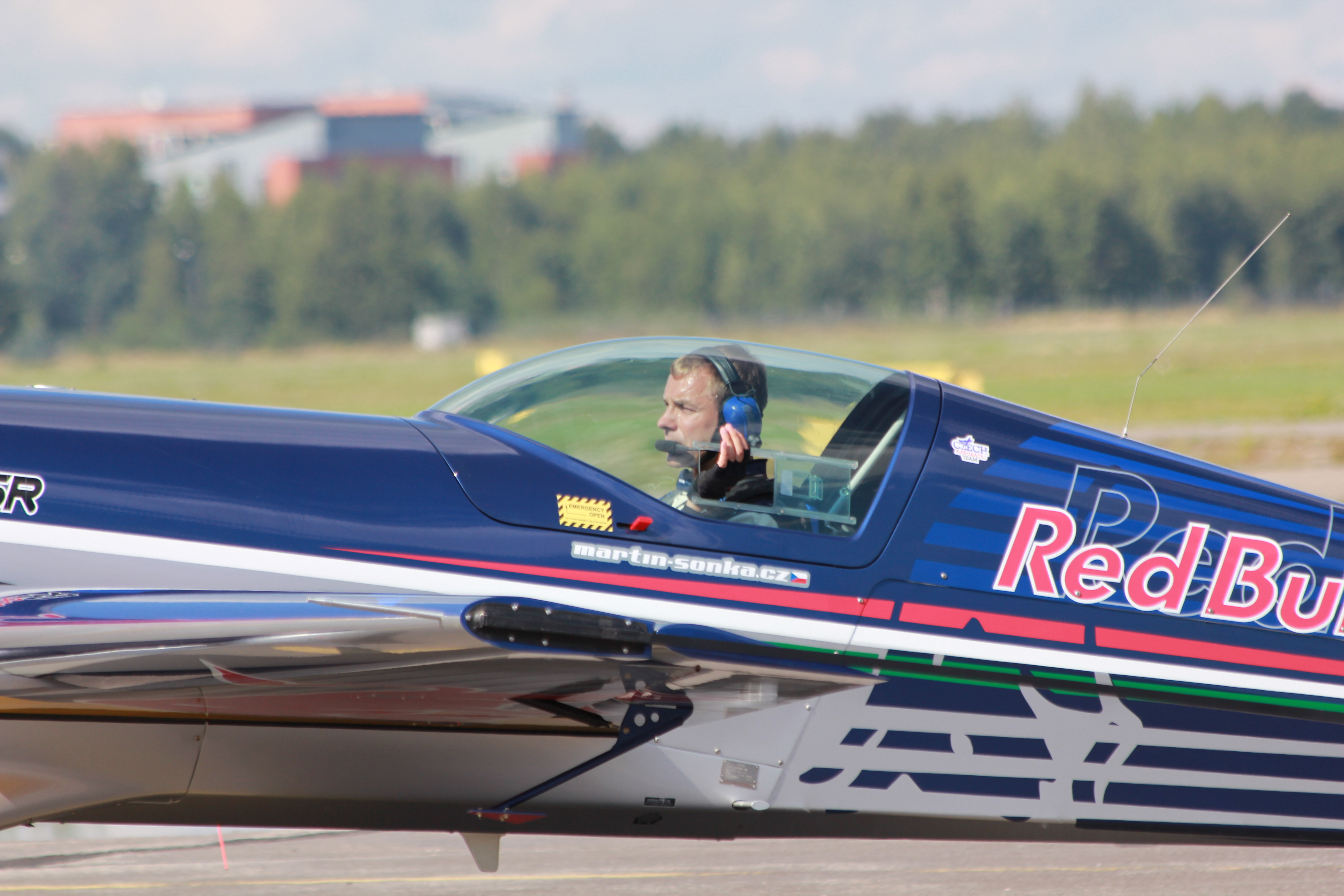 Martin Šonka taxiing in Malmi airport at Sami Kontio challenge air show after the pylon race third round.